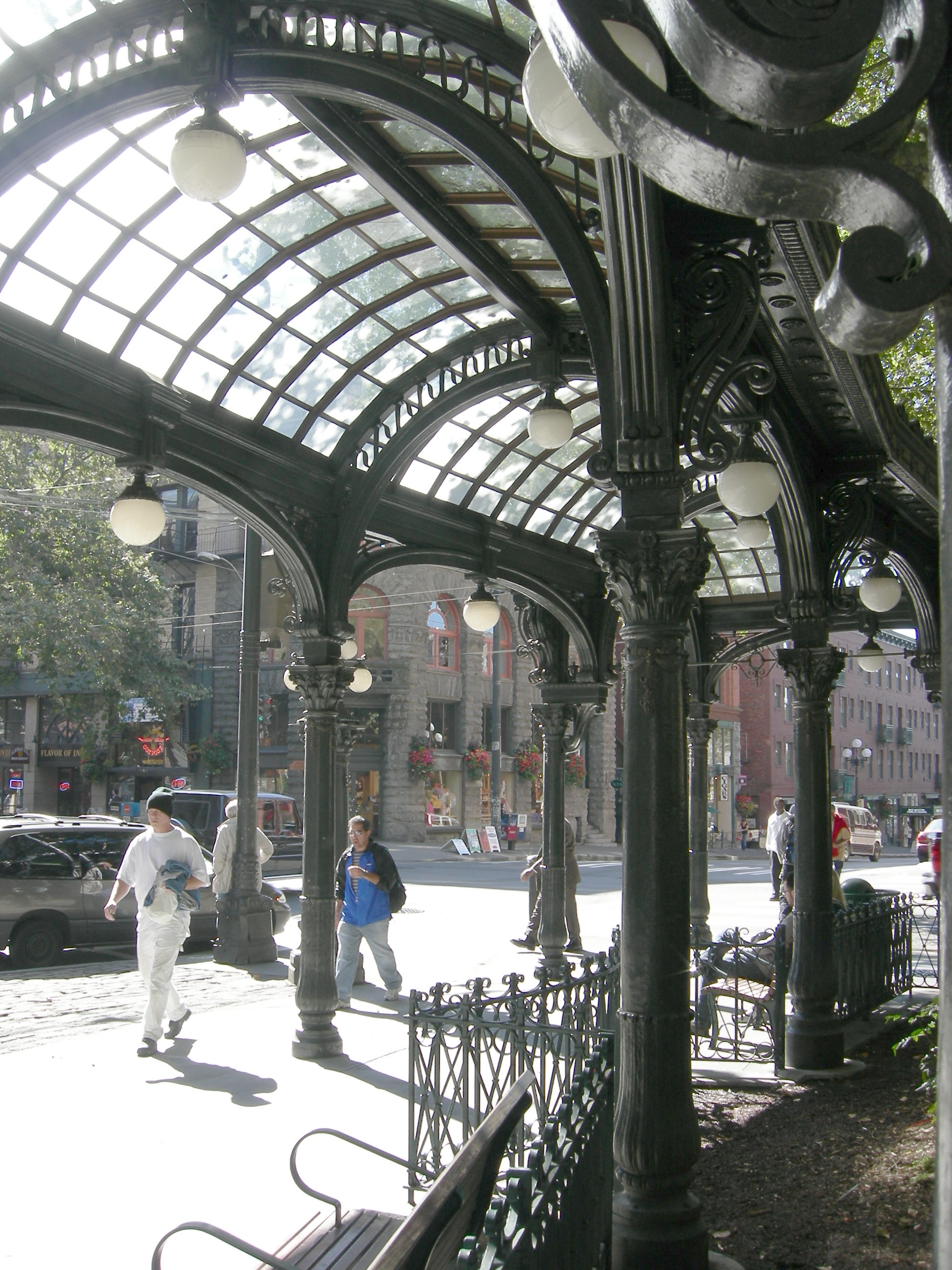 Iron Pergola, Pioneer Square, Seattle, Washington, USA. The pergola is listed in the National Register of Historic Places, ID #71000875. It is further listed along with the nearby totem pole and Pioneer Building, ID #77001340. There is also a broader inclusion for the Pioneer Square - Skid Row Historical District. The original pergola was designed by Julian F. Everett and built in 1909. The original 1909 Pergola was accidentally knocked over by a truck in January 2001 (Gene Johnson, Pioneer Square pergola leveled by truck, January 15, 2001); the current replica (shown here) was inaugurated in August 2002 (The View from Denny Park: News and Views from the Superintendent, Seattle Parks and Recreation newsletter, No. 28. July 30, 2002).